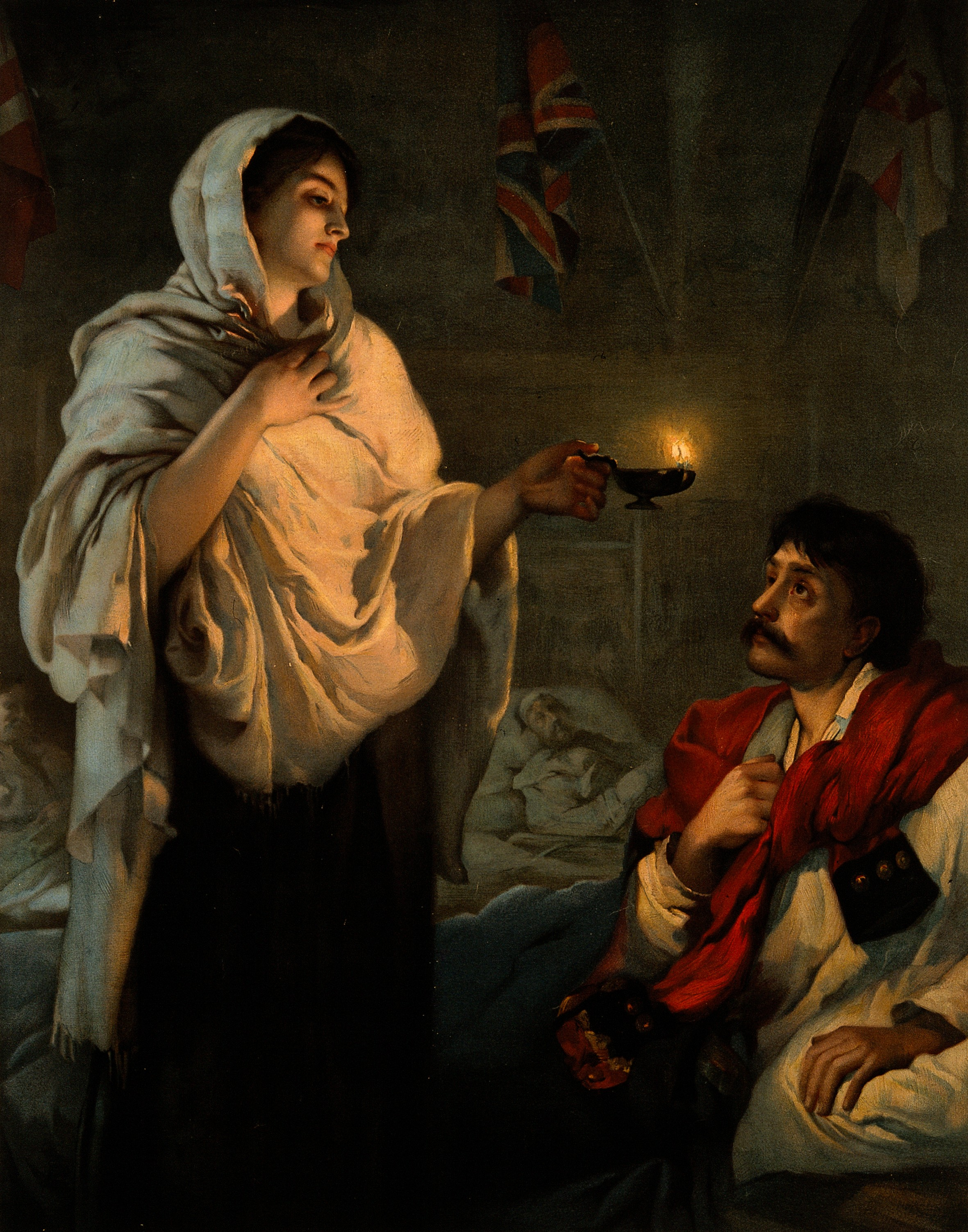 Topic-LCSH: Crimean War, 1853–1856. Military nursing. Patients. Nurses. Lamps. Care of the sick. Crimean War, 1853–1856 -- Women. Kindness. War -- Relief of sick and wounded. Genre/Technique: Chromolithographs. Portrait prints. Subject name: Nightingale, Florence, 1820–1910